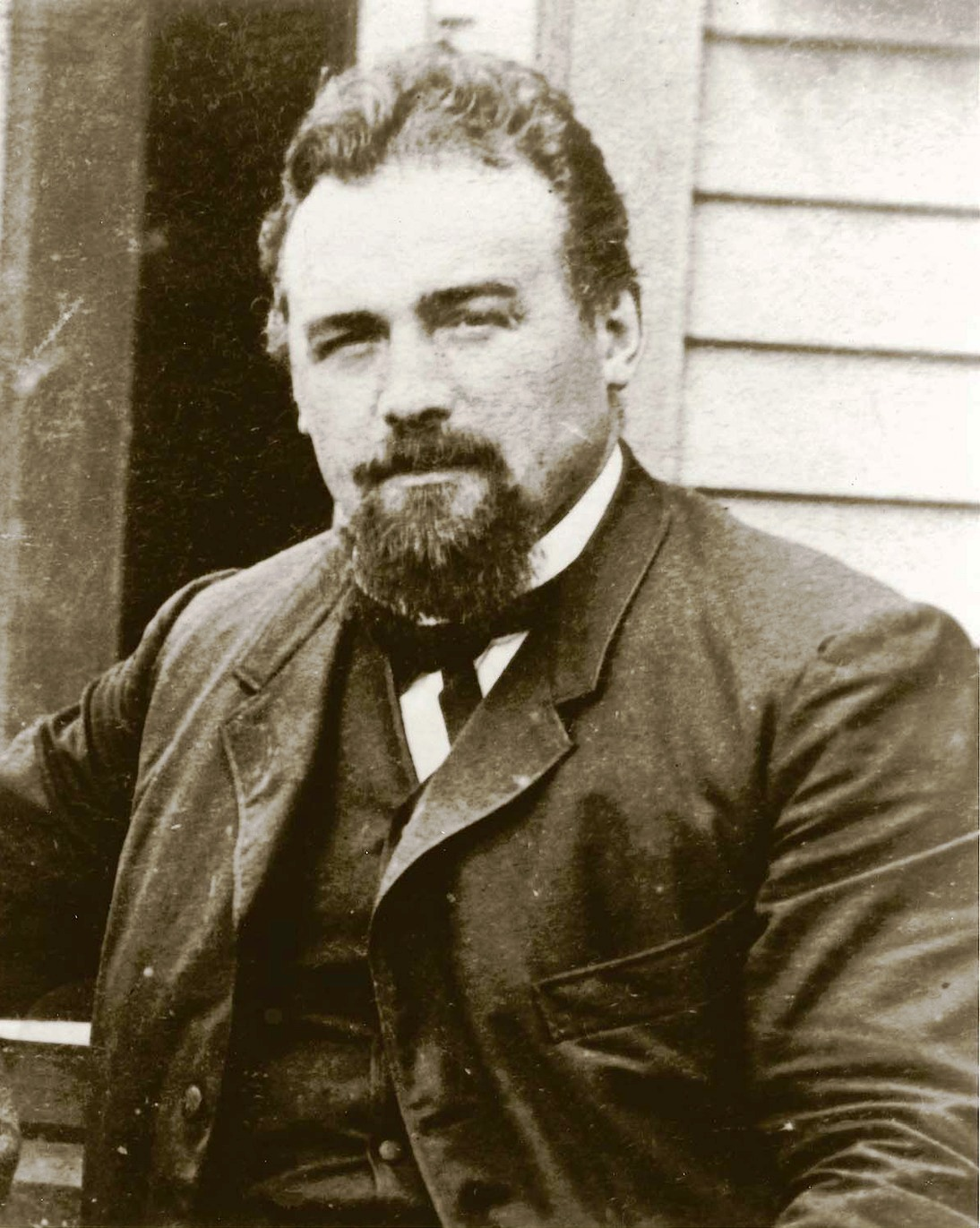 Portrait of John Michael Kohler (1844-1900)